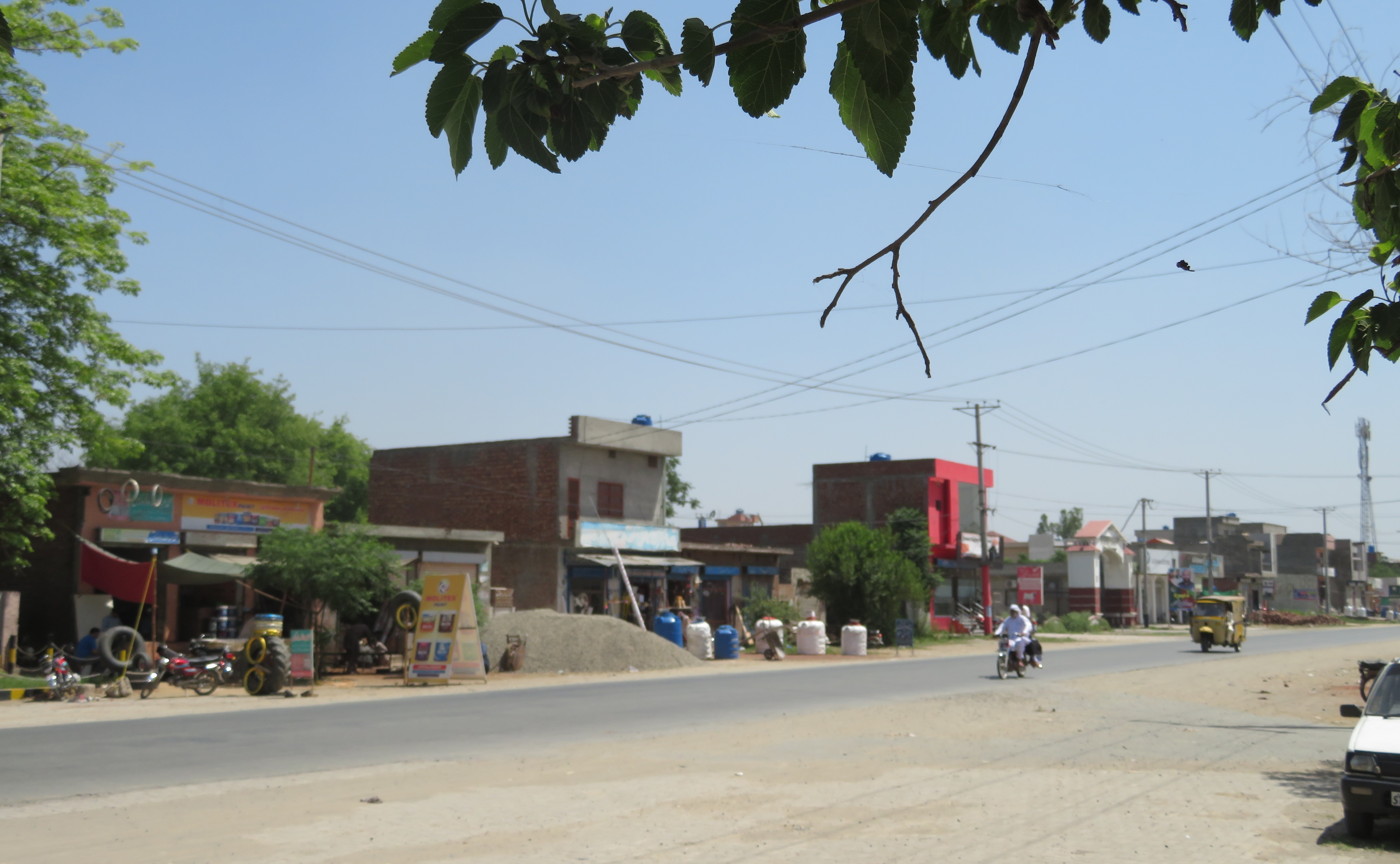 Main Road in Narowal, Punjab, Pakistan